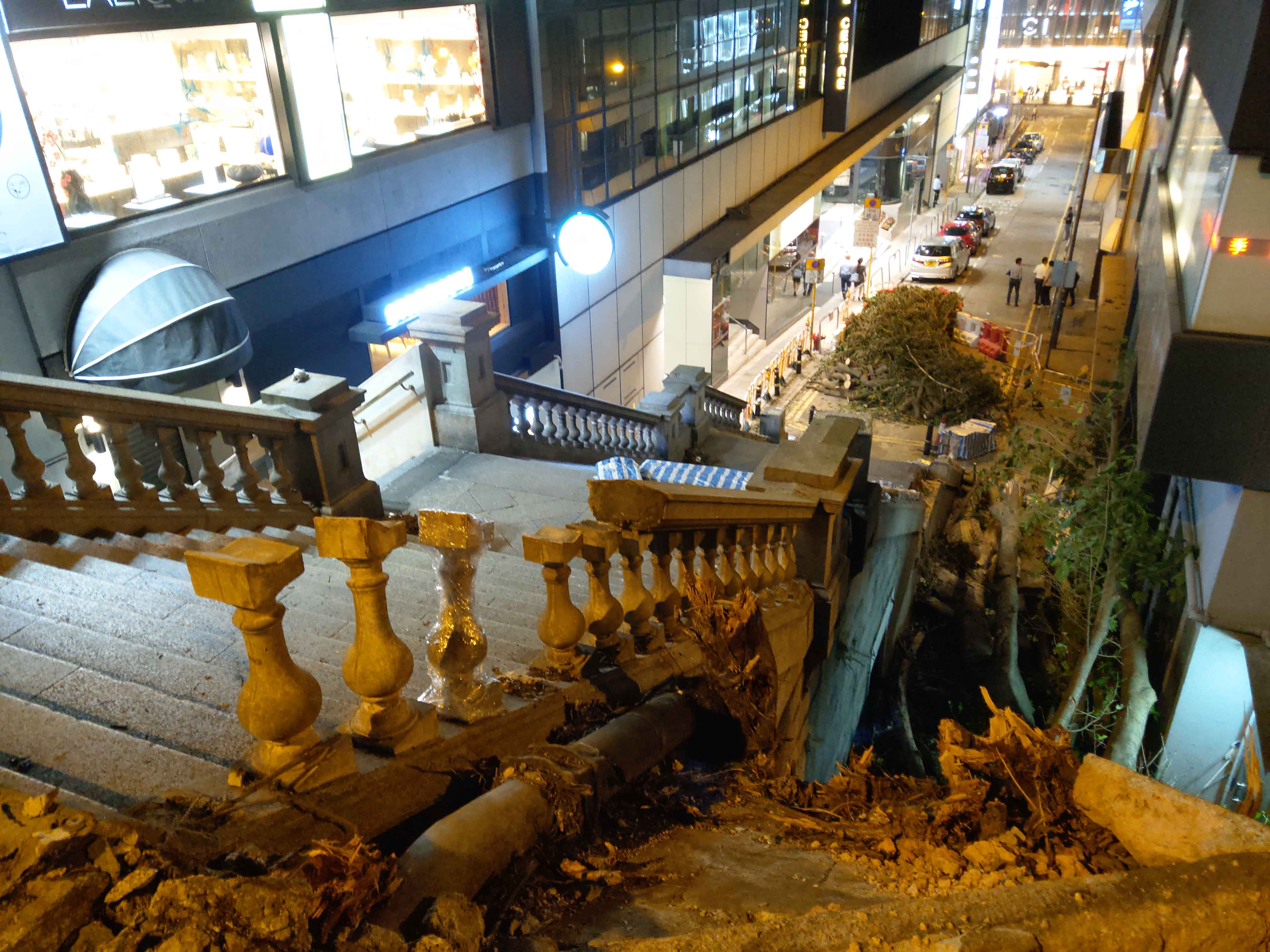 The historical stairs and gas lamps (not seen in this photo) were destroyed by Typhoon Mangkhut in September 2018. Duddell Street, Central, Hong Kong, 19 September 2018.